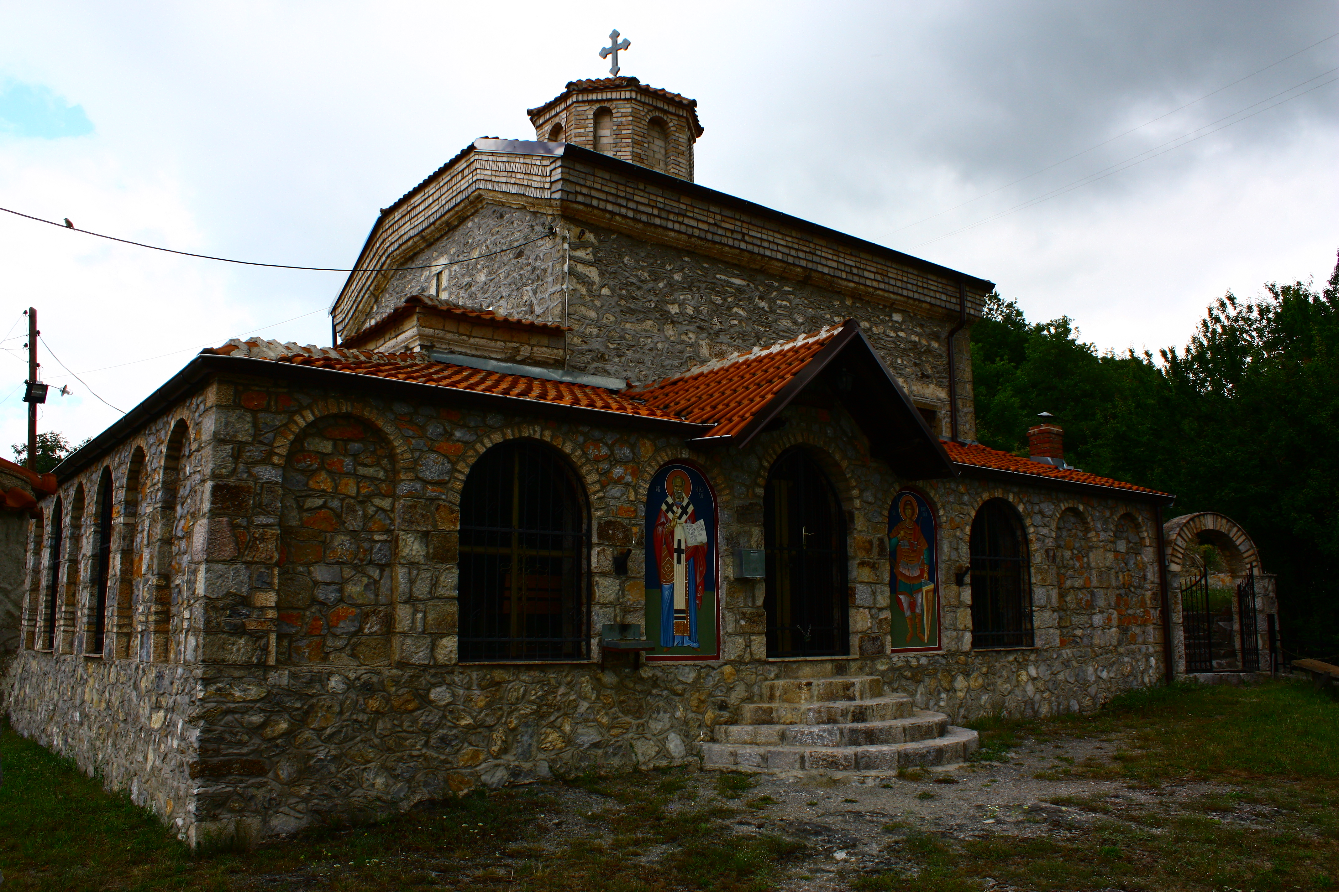 St. Nicholas Church in Openica, Macedonia